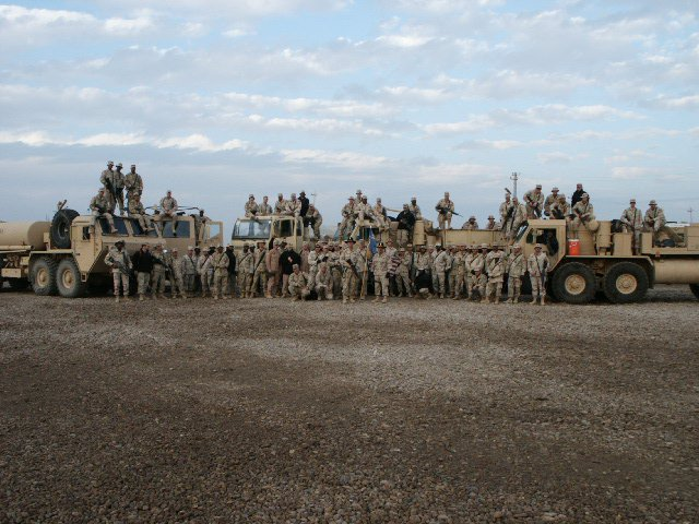 Company photo taken in Iraq at Camp Taji right before Christmas. At the time picture was taken Echo Company had not formed and was still part of HHC under the command of Captain Perry.